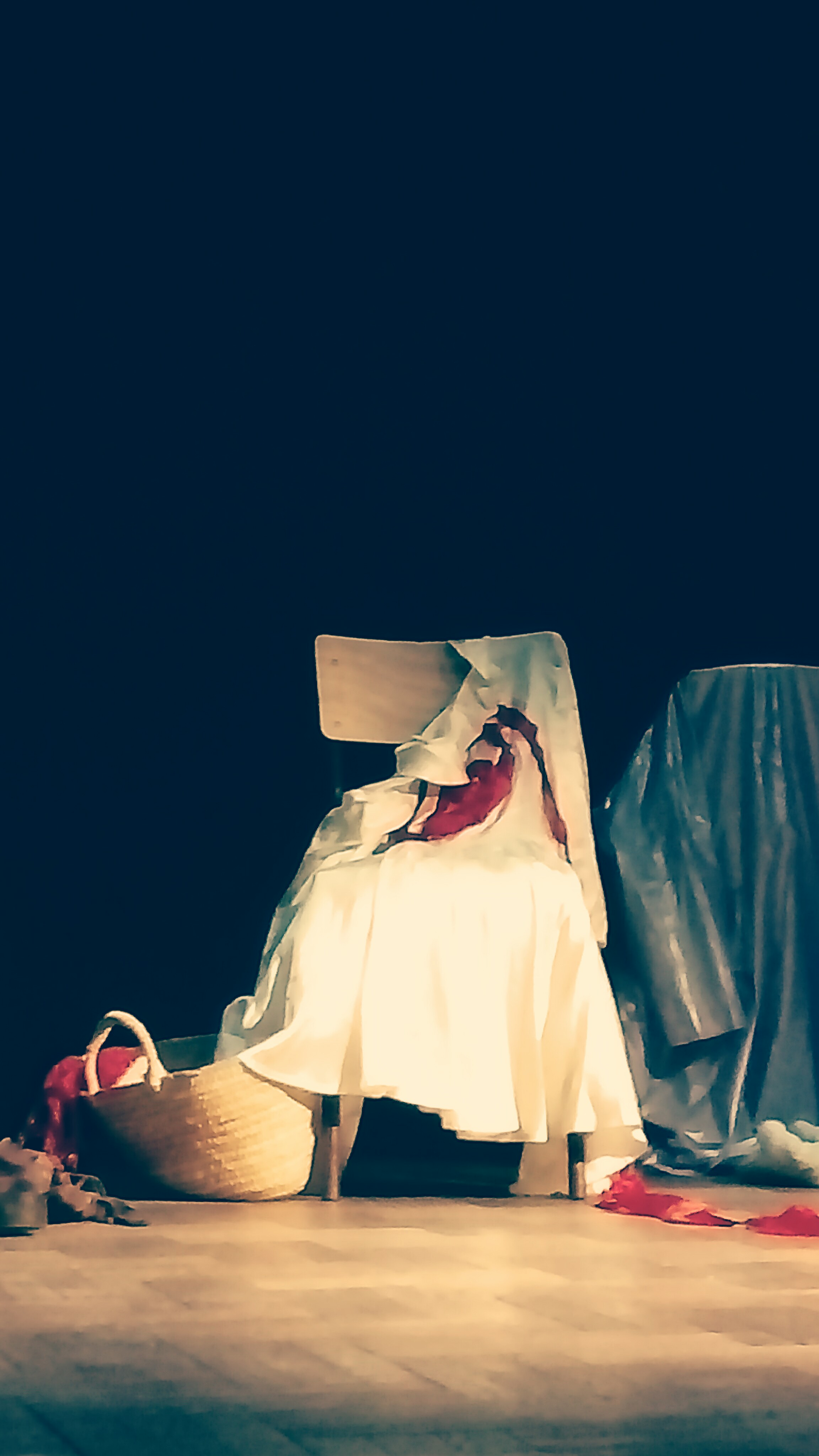 Costume created by Michèle Larrouy for the passage of the Ogre's seven daughters in Typhaine D's French play "Contes à Rebours". This passage is about rape, paedophilia and incest. Picture taken from the audience before the representation on March 8th 2018, for International Women's Day, in the town hall of the 2nd district of Paris.